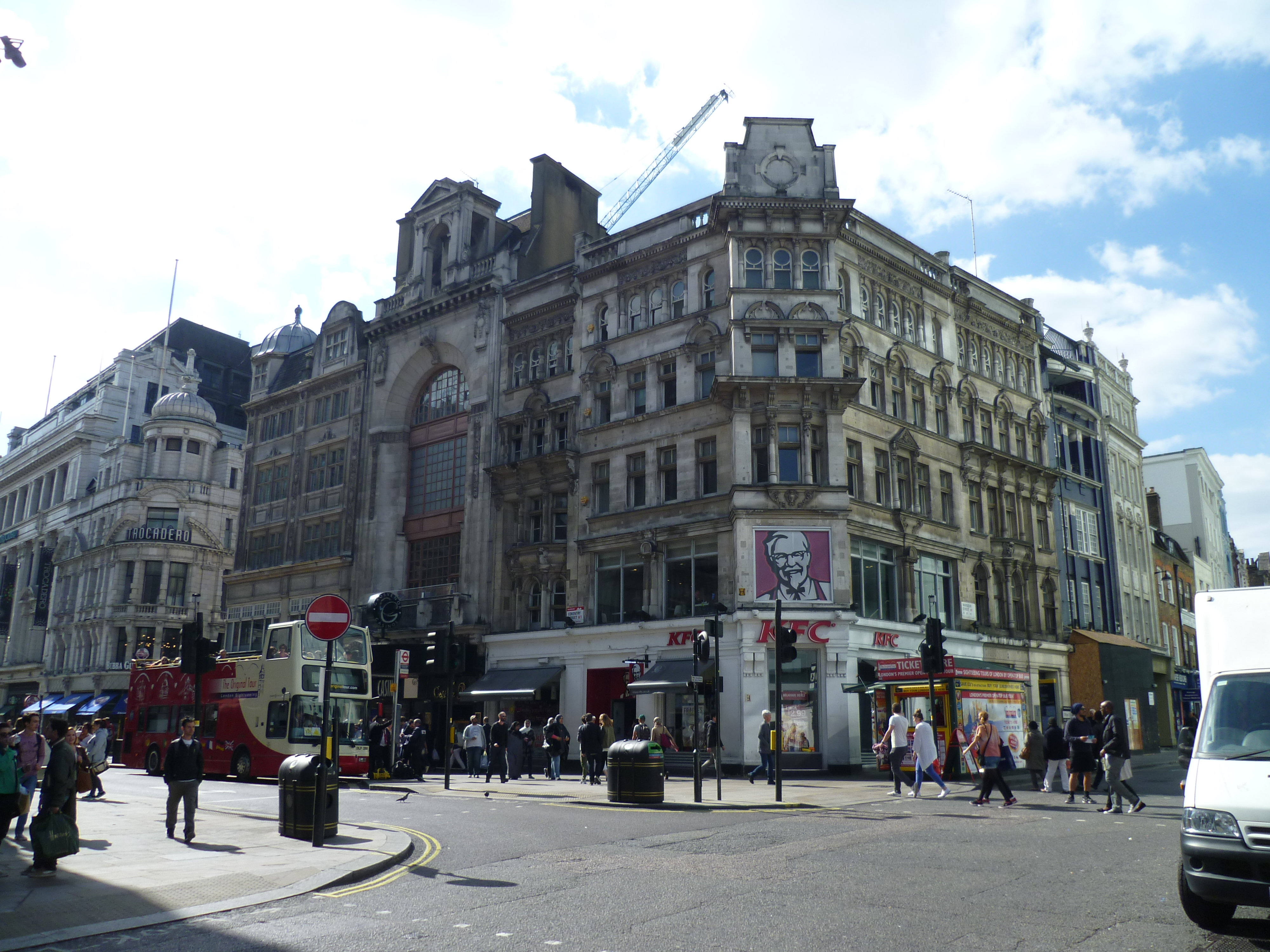 London